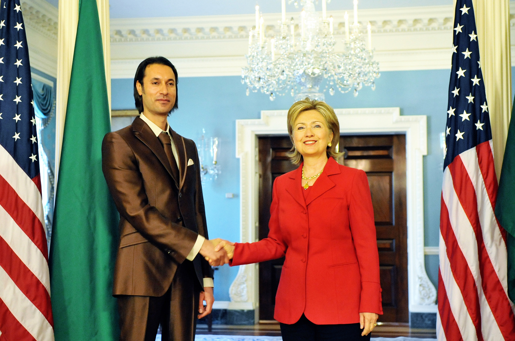 U.S. Secretary of State Hillary Rodham Clinton meets Libyan National Security Advisor Dr. Mutassim Qadhafi at the U.S. Department of State in Washington, DC April 21, 2009. [State Department photo]